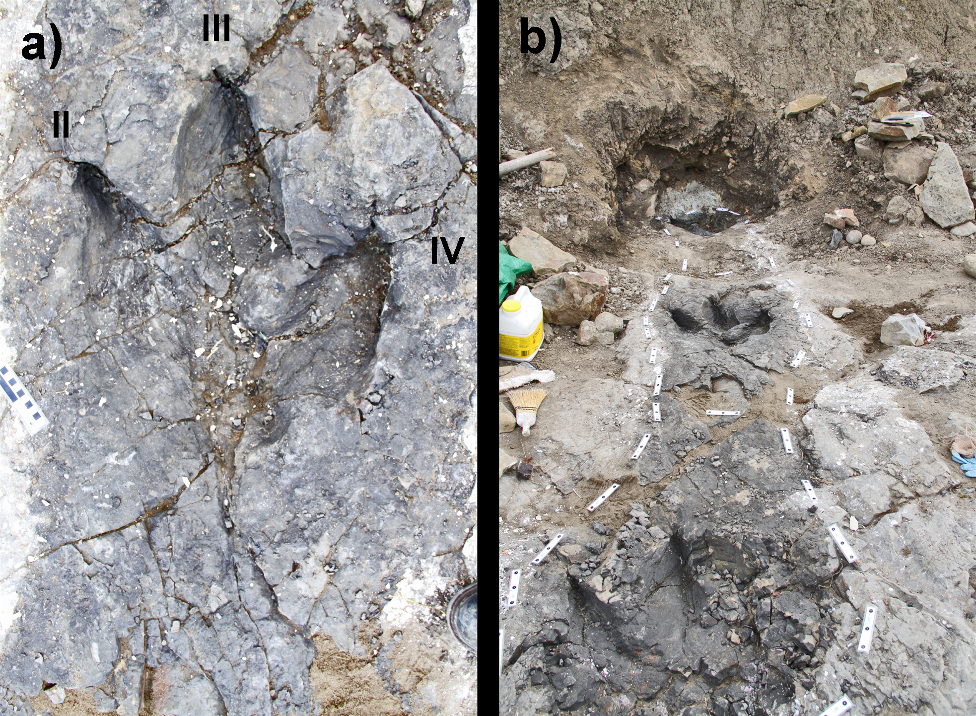 In situ tyrannosaurid Bellatoripes fredlundi Trackway A images. a) Print #2 of Trackway A (in situ) - PRPRC 2011.11.001 (right); b) Trackway A (in situ) view to the east of prints #1–3. Note the thick layer of kaolinite in the freshly excavated area in front of print #3.